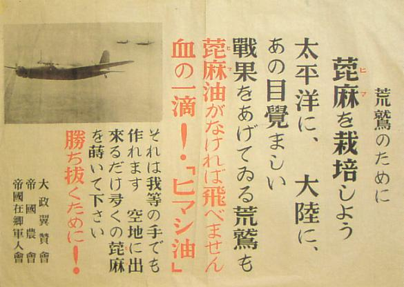 Japanese Poster (During World War II) "Let's grow Castor-oil plant for eagle (Military aircraft)!"